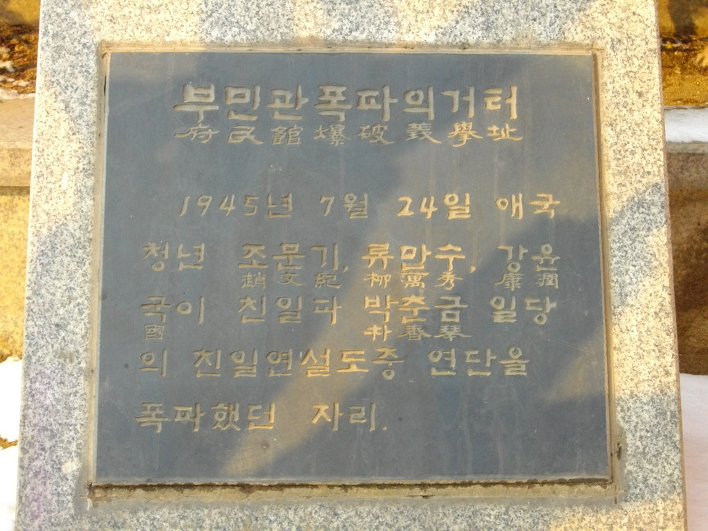 Keijo Public Hall Incident Monument